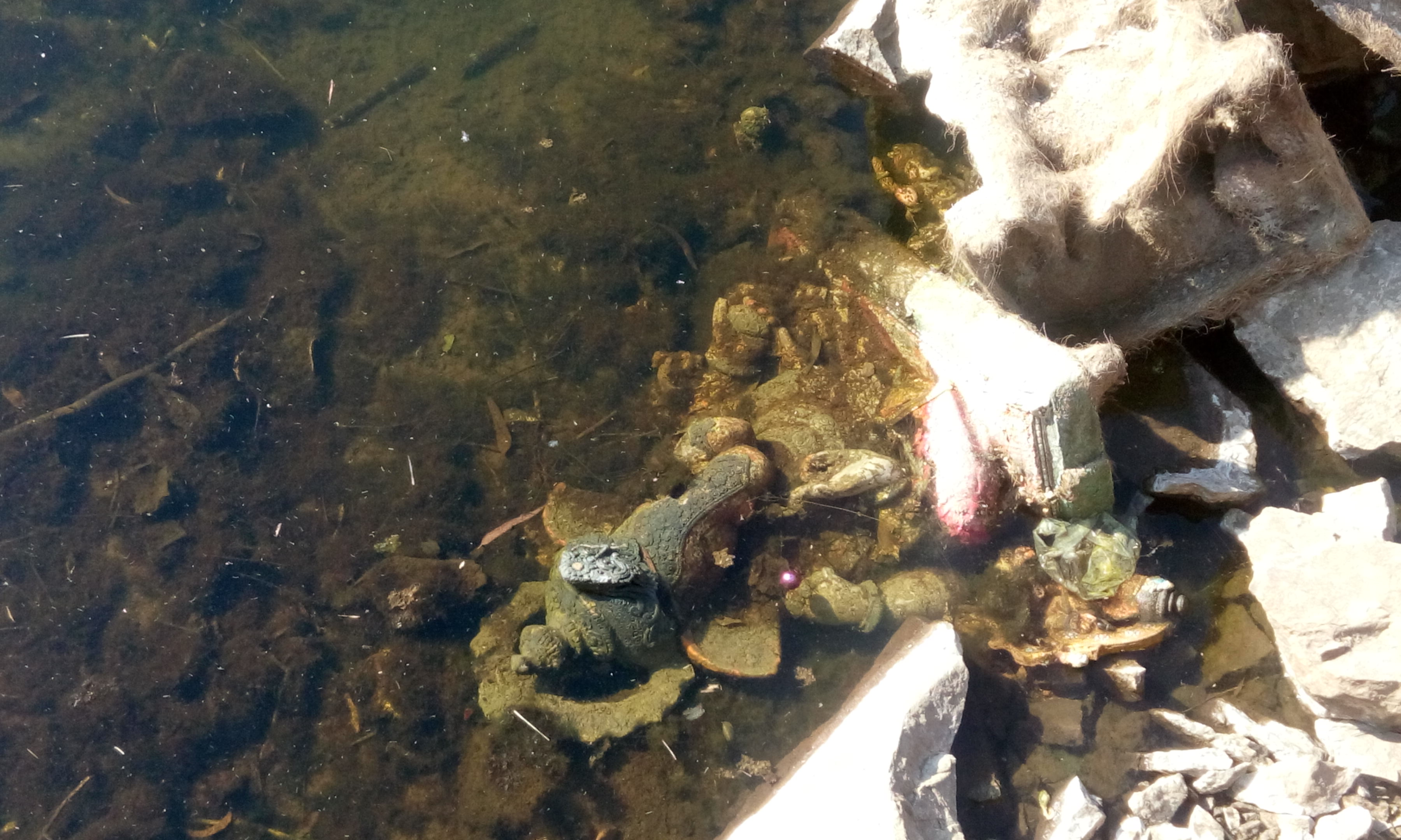 After ganesh idol visarjan water body gets contaminated due to idols toxic paints.